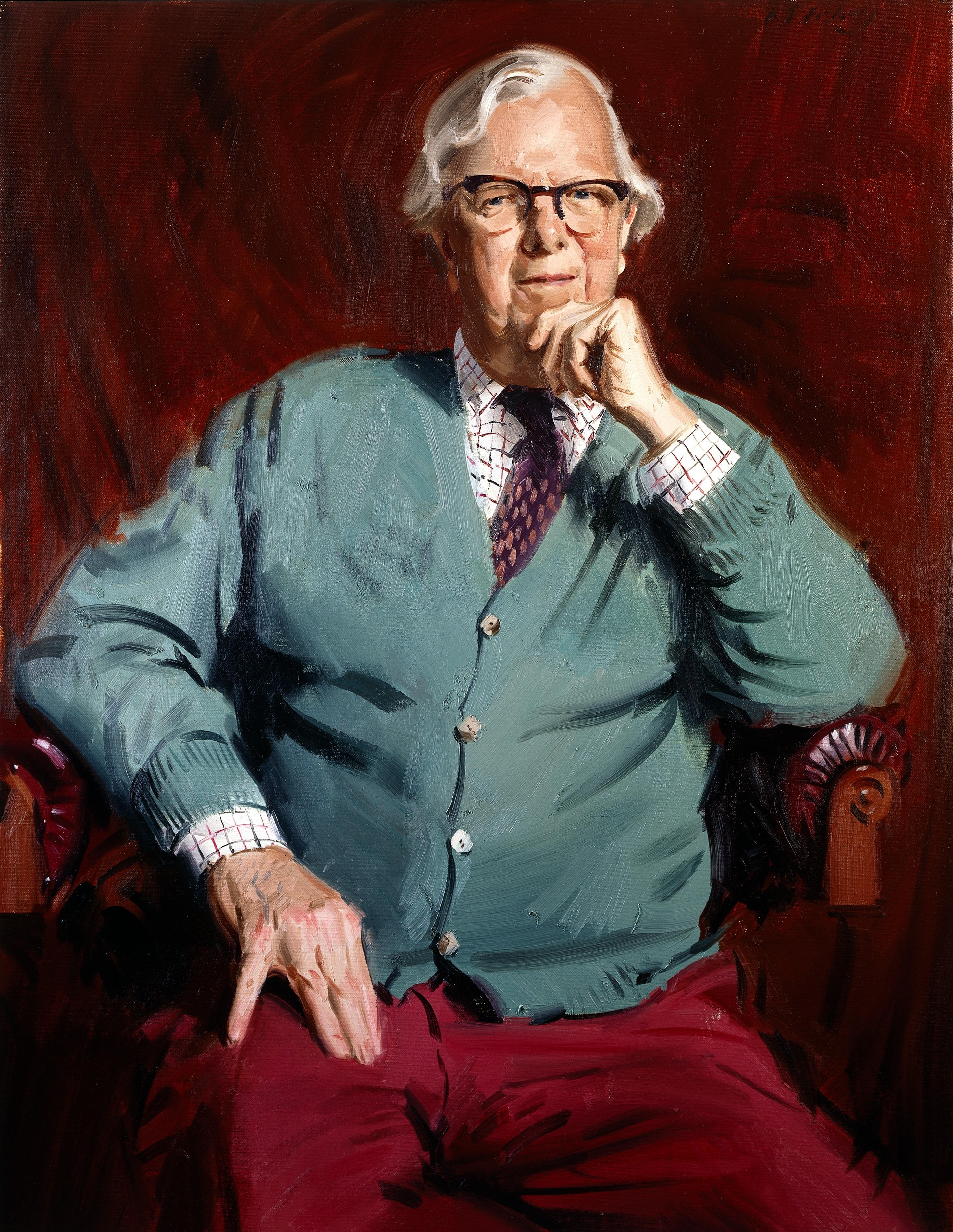 Sir Roger Gibbs. Oil painting.